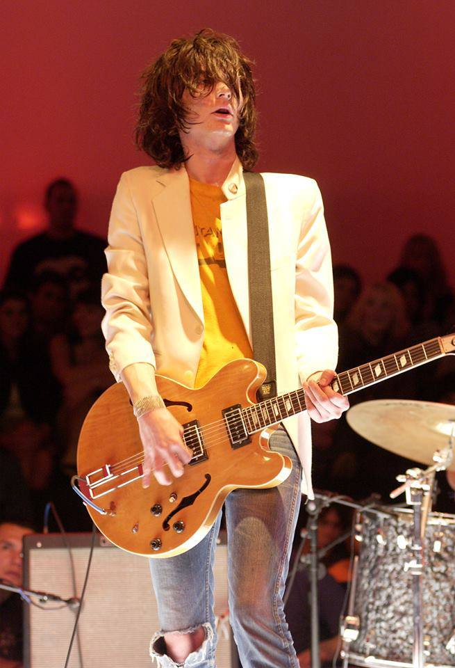 Nick Valensi at 2 Dollar Bill